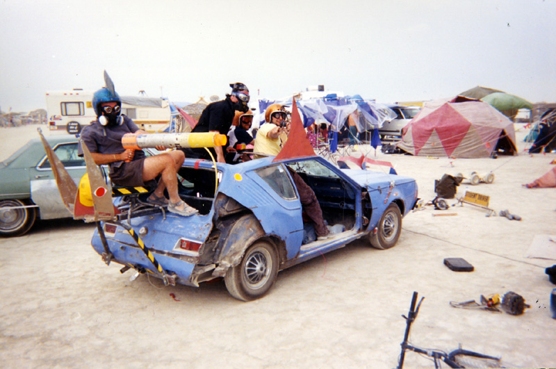 That's me on the back, with the gas mask and...um...bazooka. :P We're riding a Pacer that was "modified" for road warrior action. Woot!